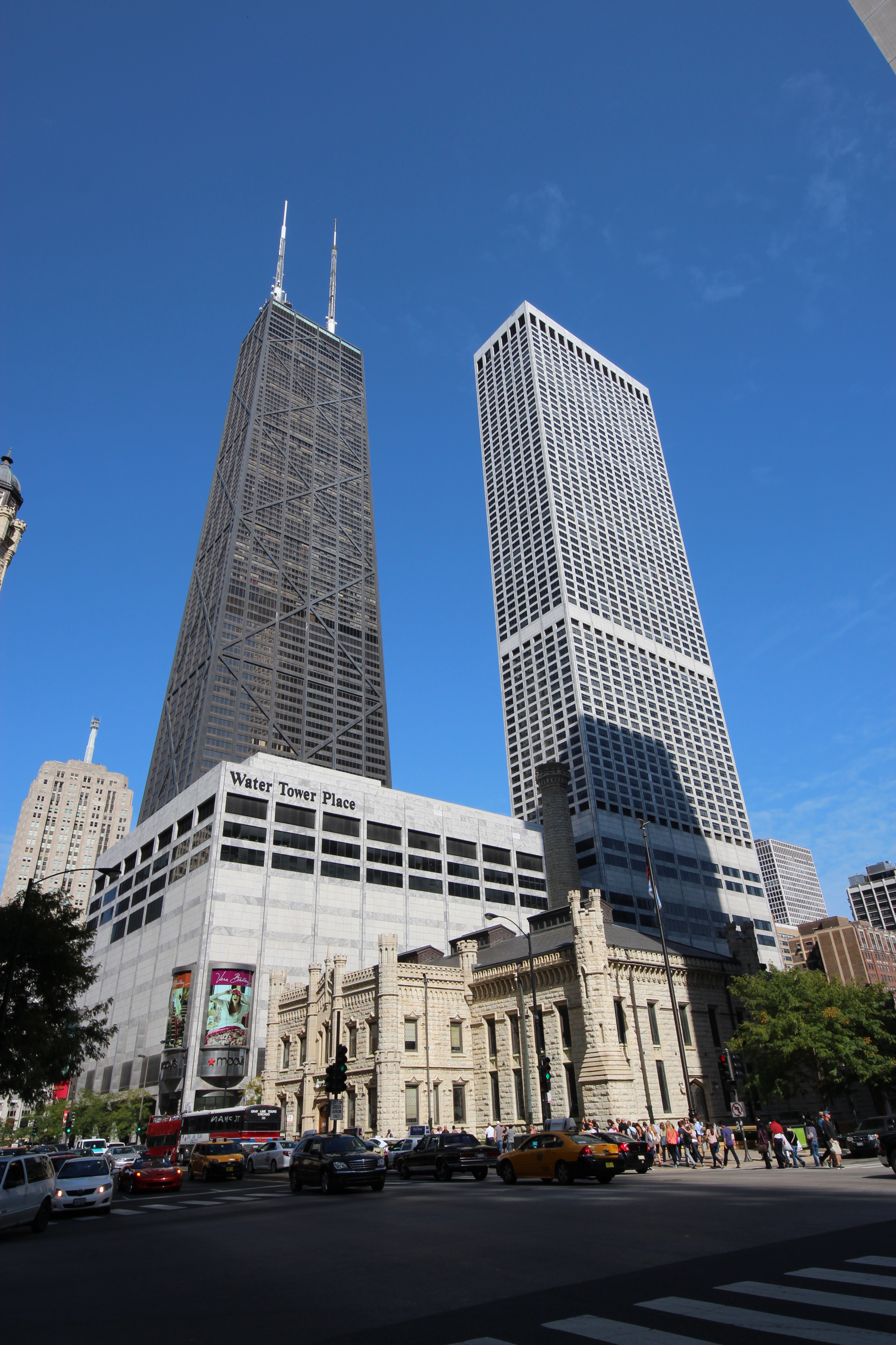 Water Tower Place and nearby buildings